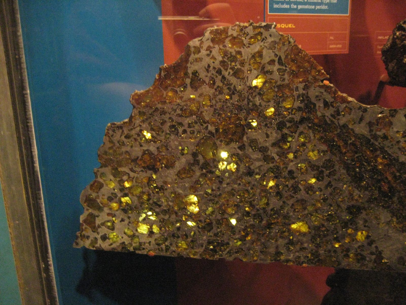 Esquel pallasite. Demostrates when liquid metal breaks apart silicate crystals. This is made of olivine. Found 1951, Chubut, Argentina.